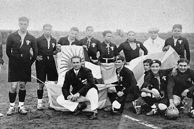 The Mexico national football team before playing its first game v. France at the 1930 FIFA World Cup held in Uruguay. The line-up was: Bonfiglio, Garza, M. Rosas, F. Rosas, A. Sánchez, Amezcúa, L. Pérez, Carreño, Mejía, Ruiz, H. López.